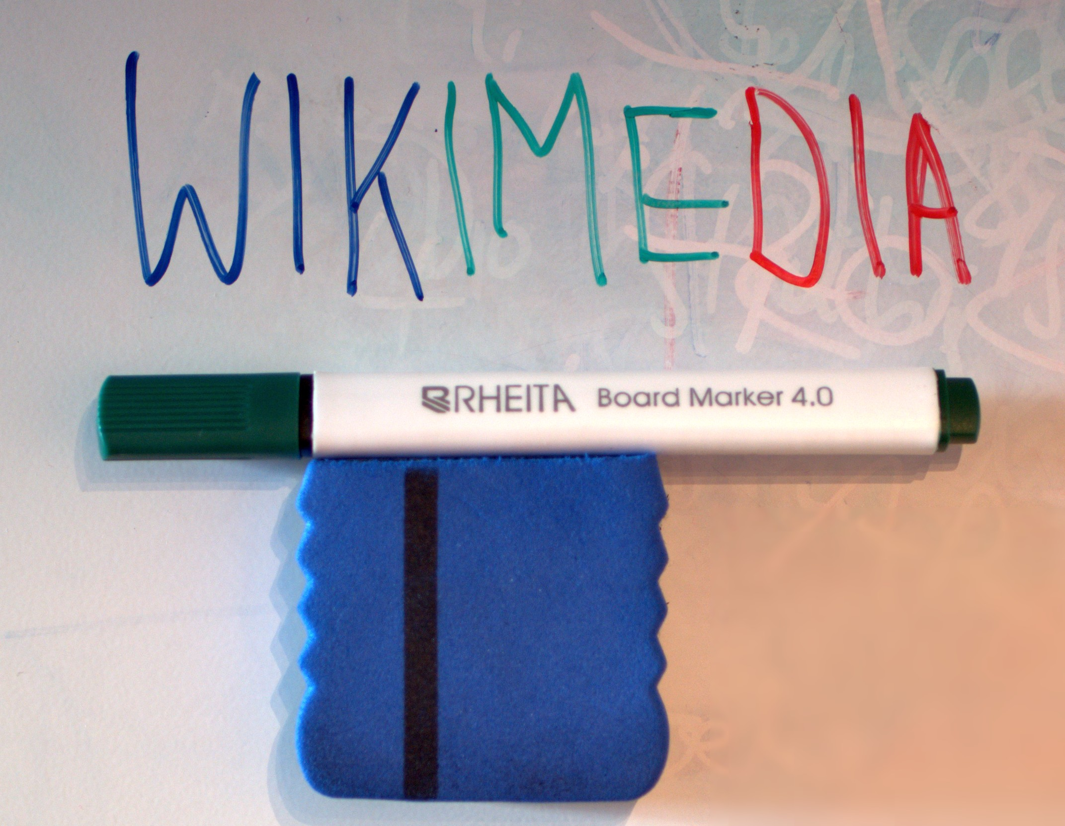 A whiteboard with an example of writing in blue, green and red; a whiteboard marker RHEITA Board Marker 4.0 in green; and a whiteboard eraser, which is magnetic and can thus be stored hanging on the whiteboard itself. Note the imperfectly wiped earlier writing in the upper right corner of the photo.